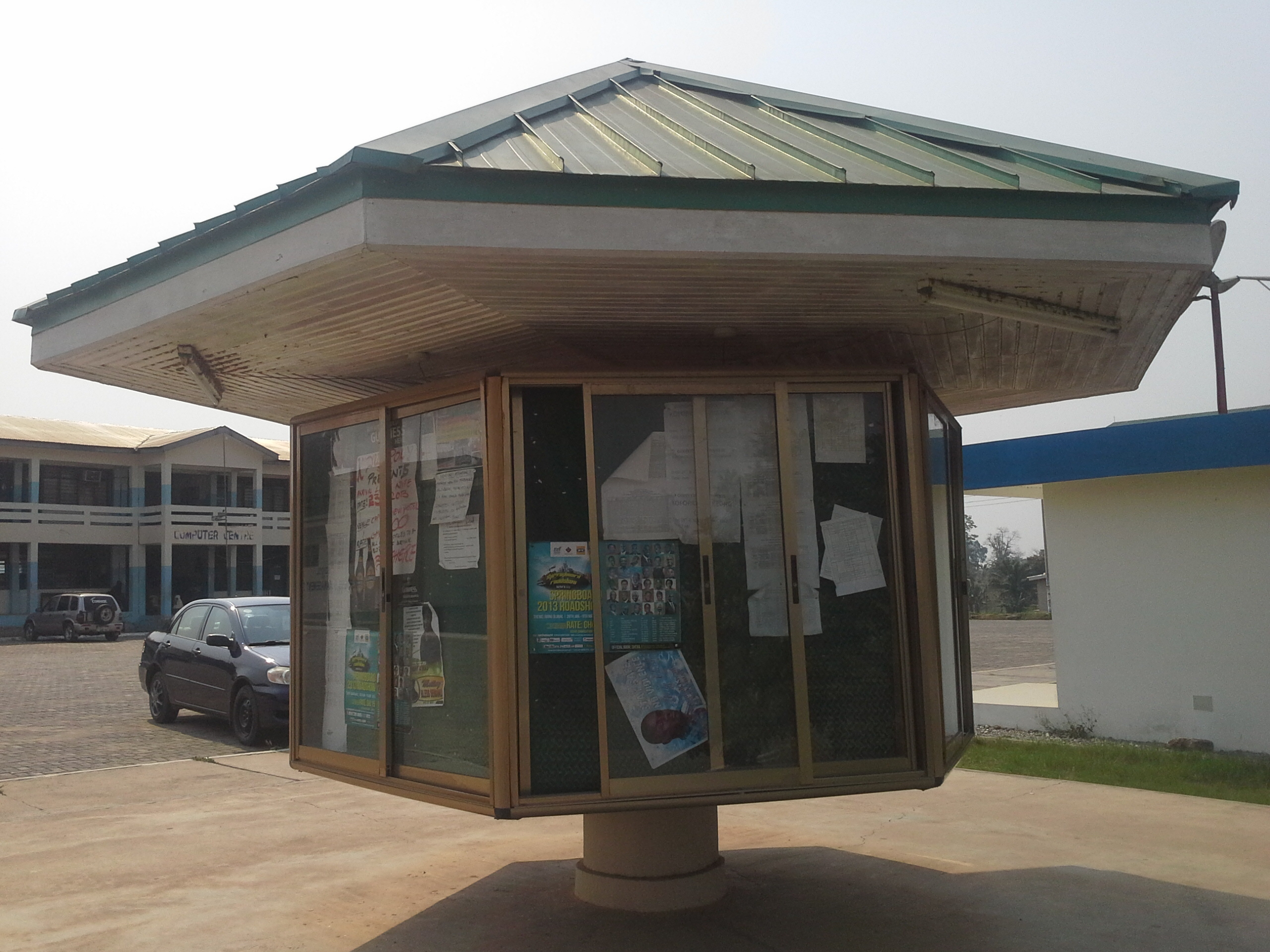 This is the general notice board located on the ceremonial grounds of kpoly